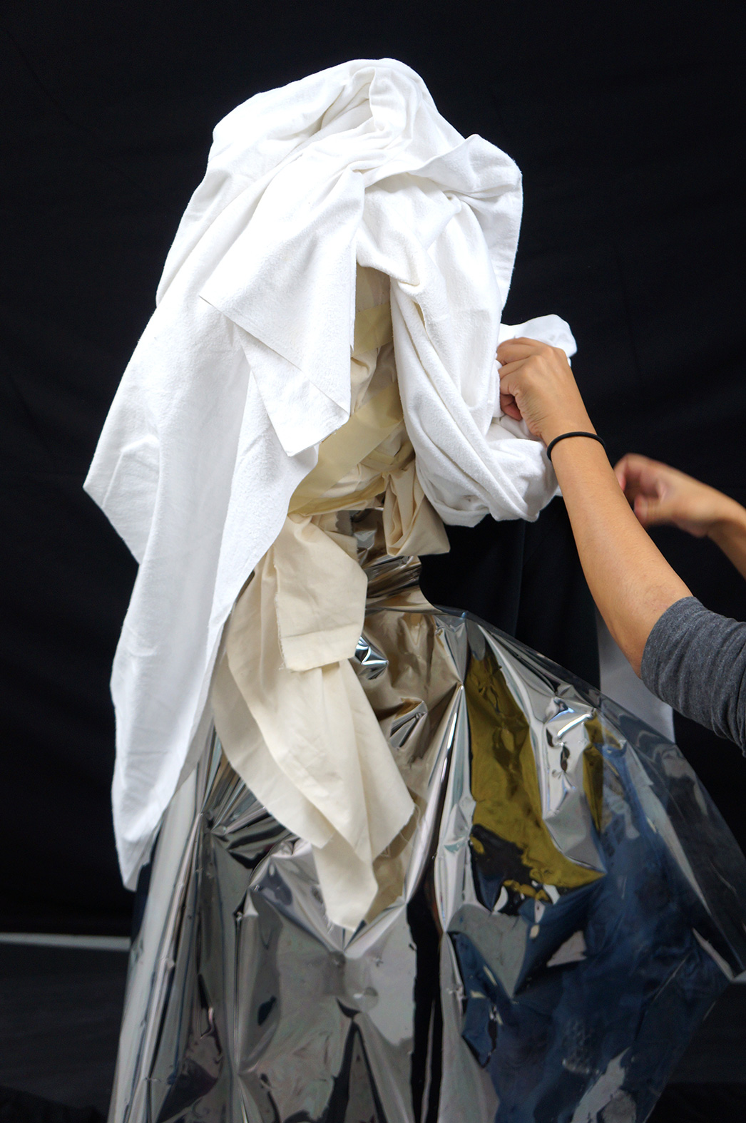 Portrait of Vincent Ganty as seen in Antwerp in December 2017